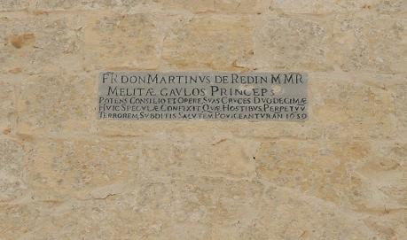 Hamrija Tower, detail of plaque on the North-Eastern side. Latin inscription, denoting Grand Master's name and year of build among other details.